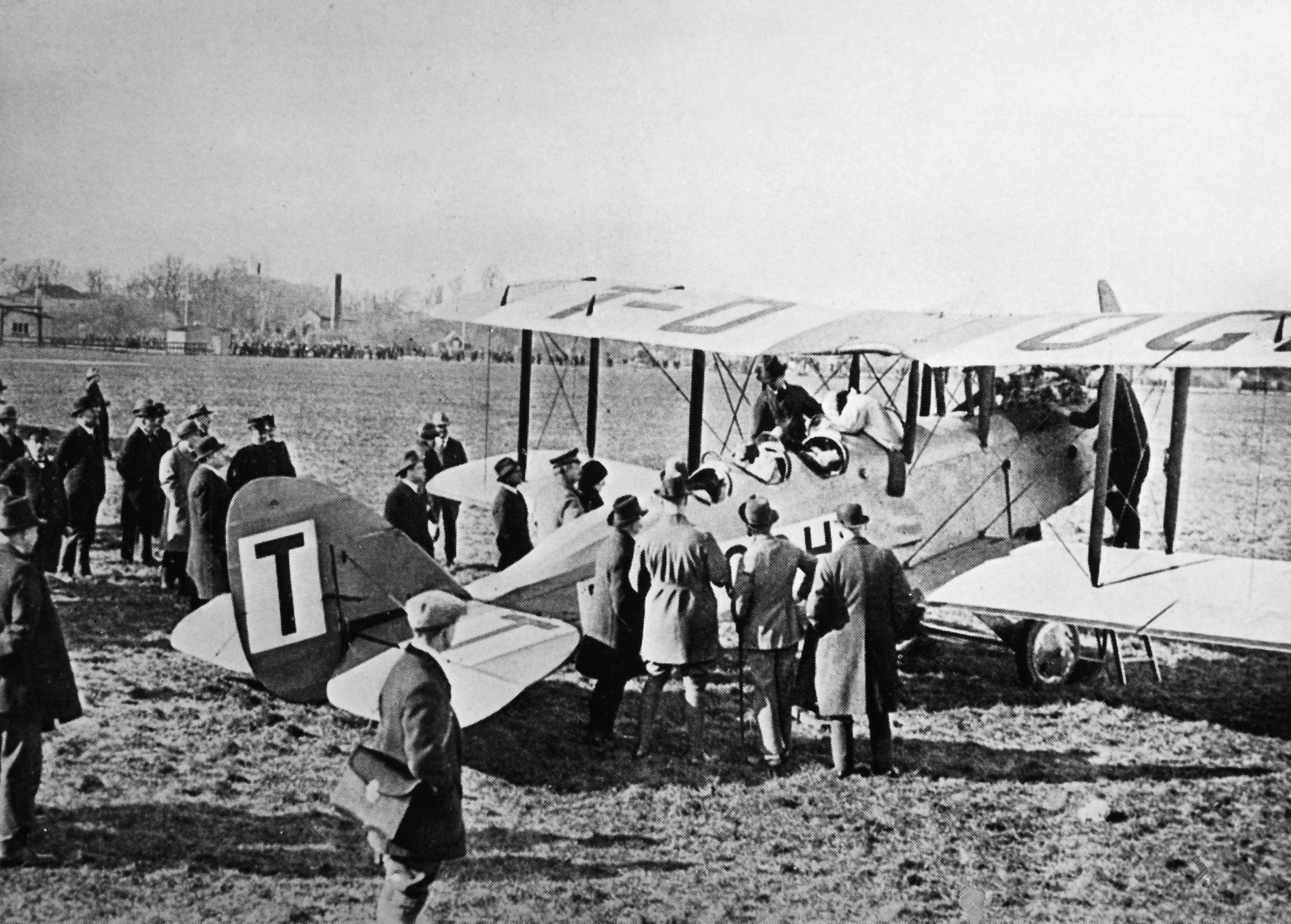 DDL De Havilland 9a DDL, at Copenhagen Airport, 1921